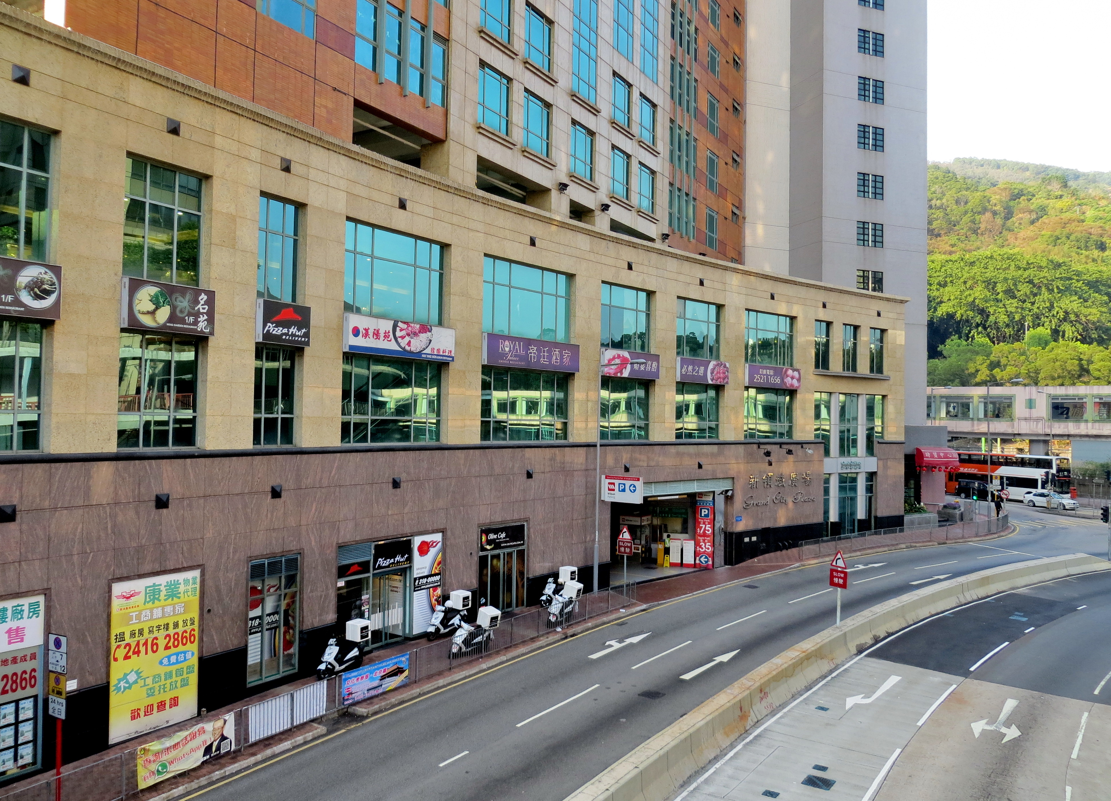 Grand City Plaza, 1 Sai Lau Kok Road, Tsuen Wan, New Territories, Hong Kong.